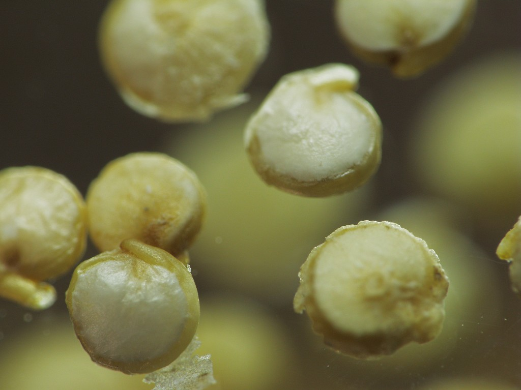 Some whole quinoa grains.